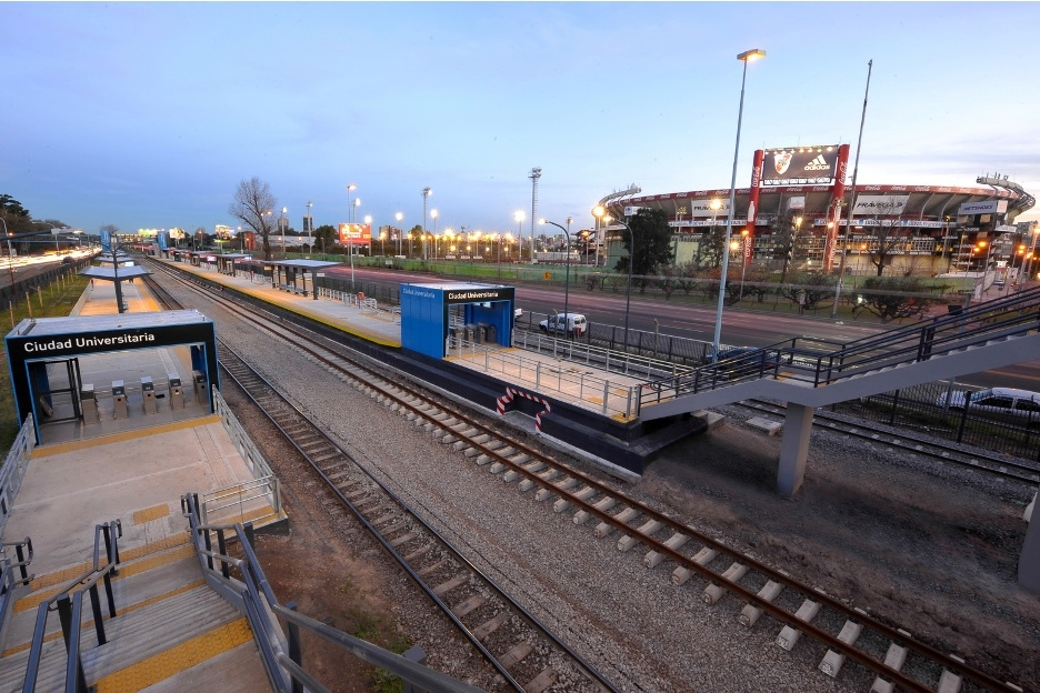 Ciudad Universitaria train station of Belgrano Norte Line.